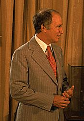 Cropped image of former Canadian PM Pierre Trudeau ARC Identifier: 176148